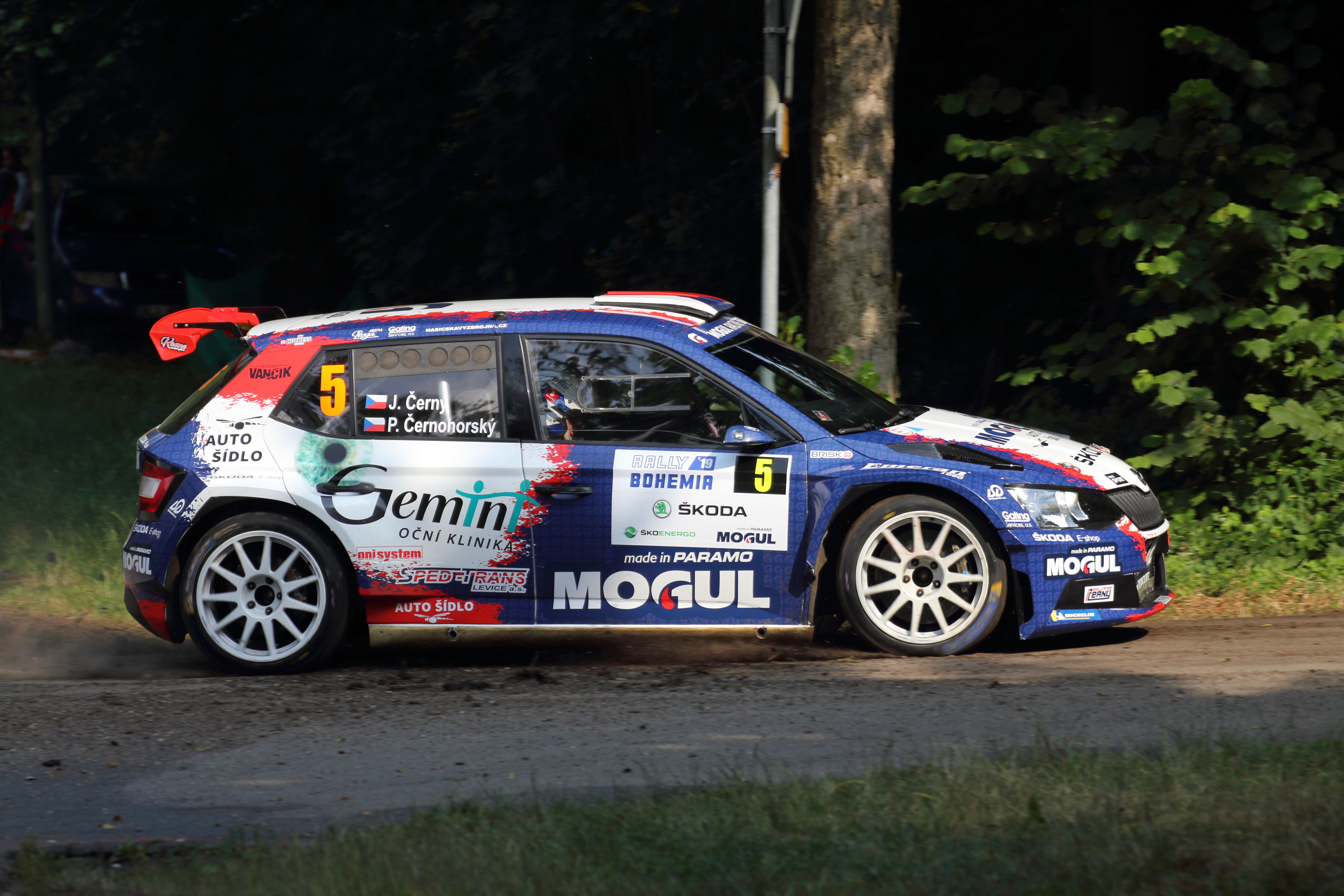 Černý, Škoda Fabia R5, 2019 Rally Bohemia